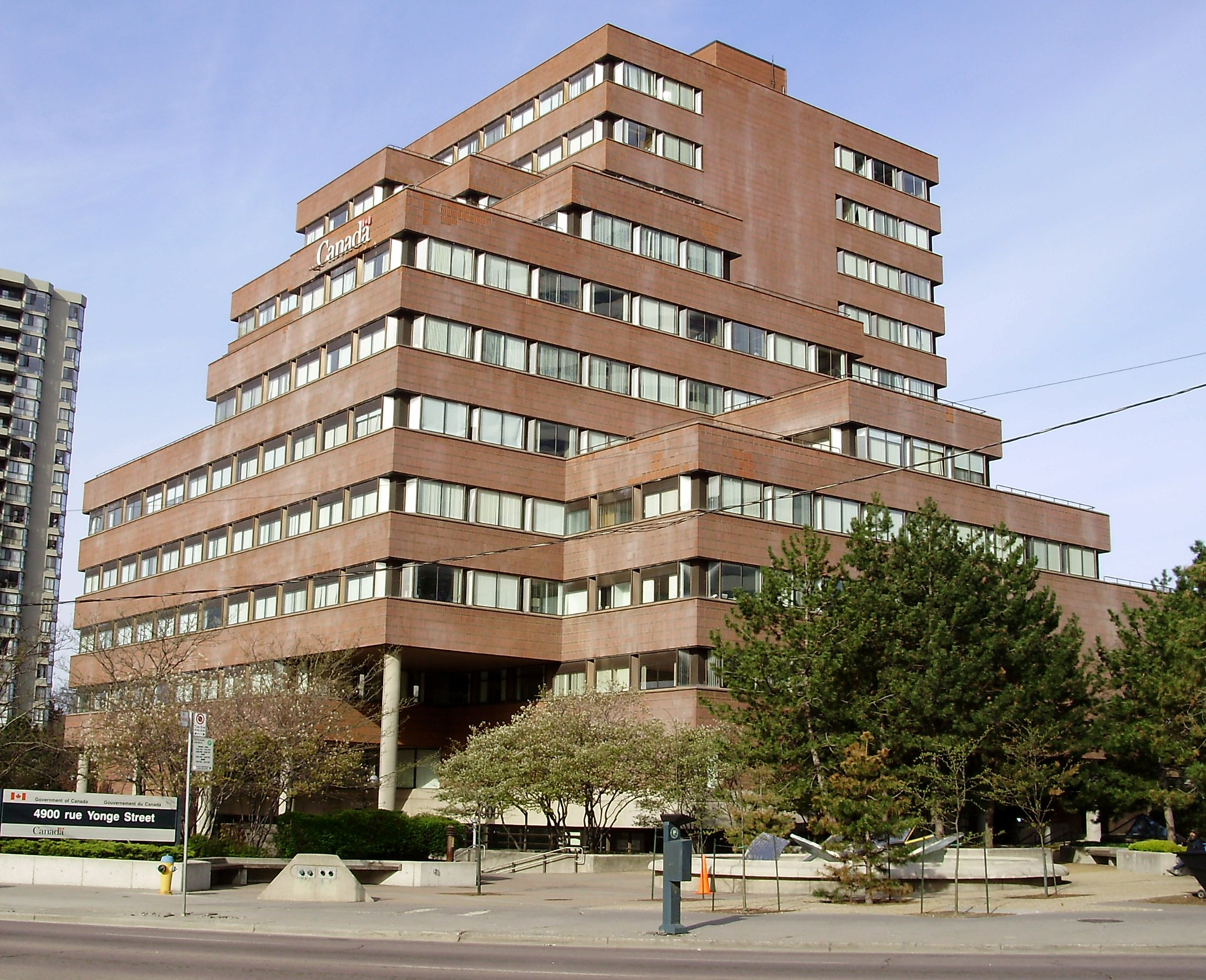 The Joseph Sheppard Federal Building in North York, Ontario, a Government of Canada office complex.